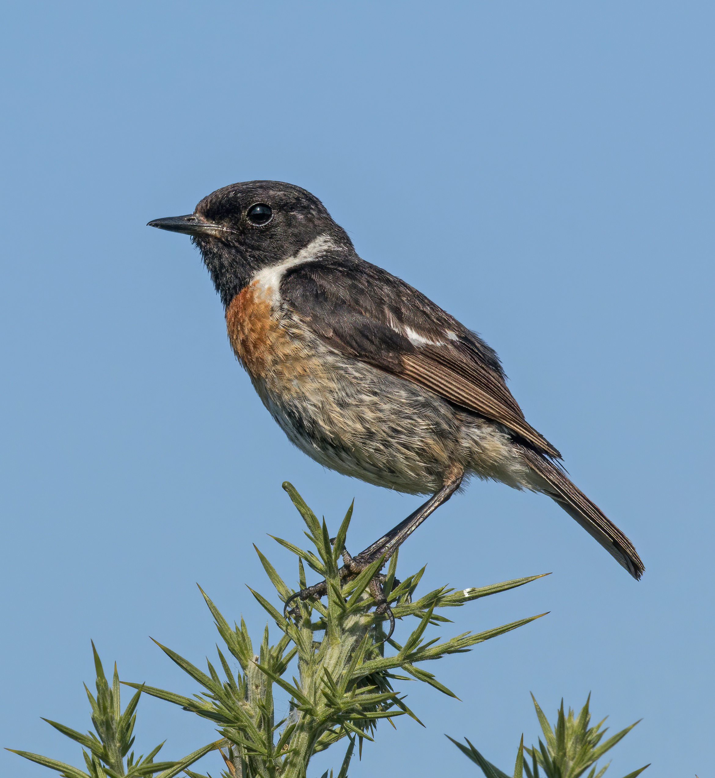 Stonechat (Saxicola rubicola) male, Beaulieu, Hampshire